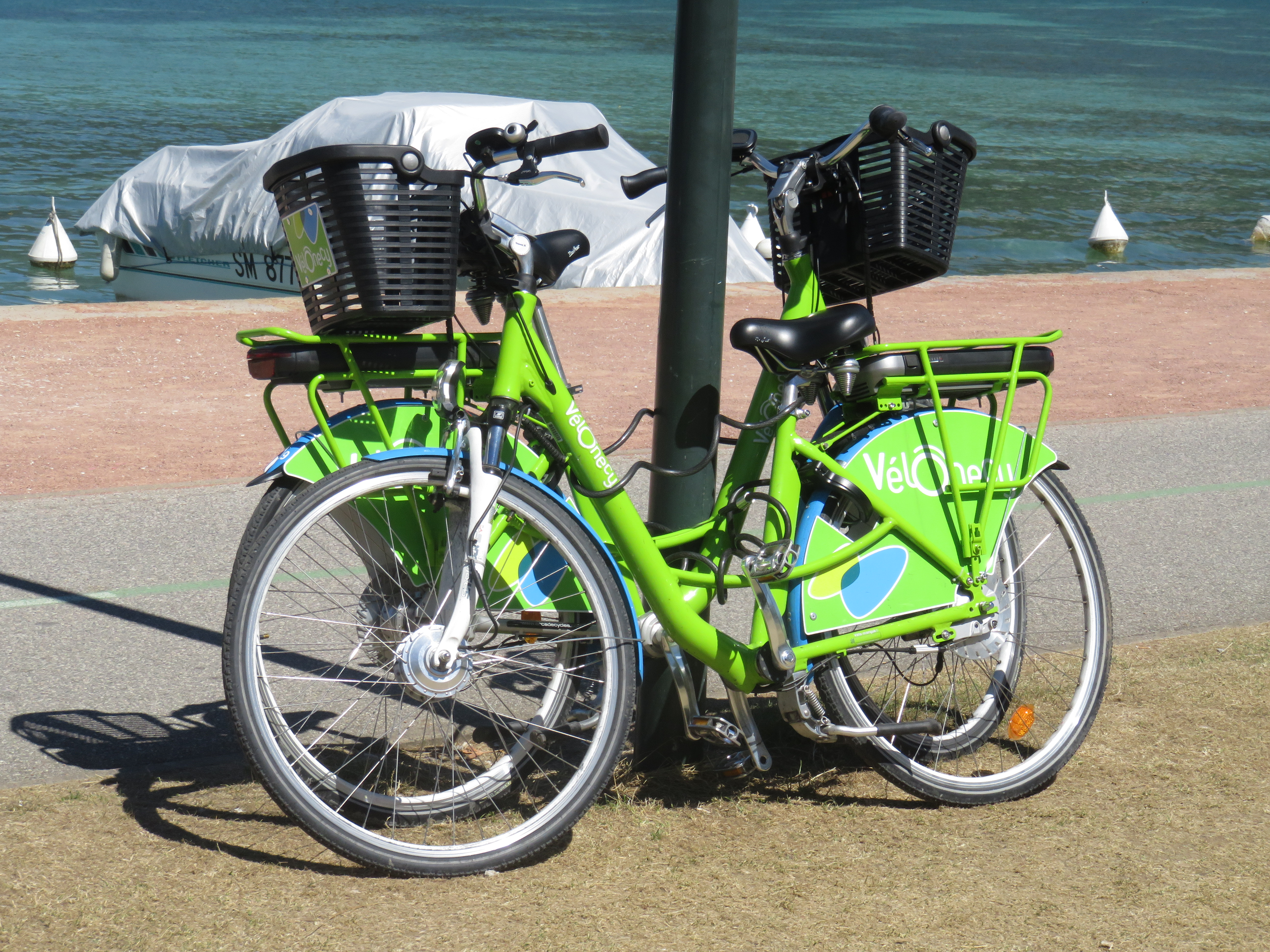 A Vélonecy parked on the Quai de la Tournette (Annecy, France) on August 12, 2018.